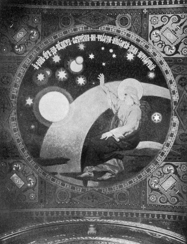 "Четвертый день творенія" (Fourth Day of Creation) - painting by Pavel Svedomsky at St Volodymyr's Cathedral in Kyiv, Ukraine.